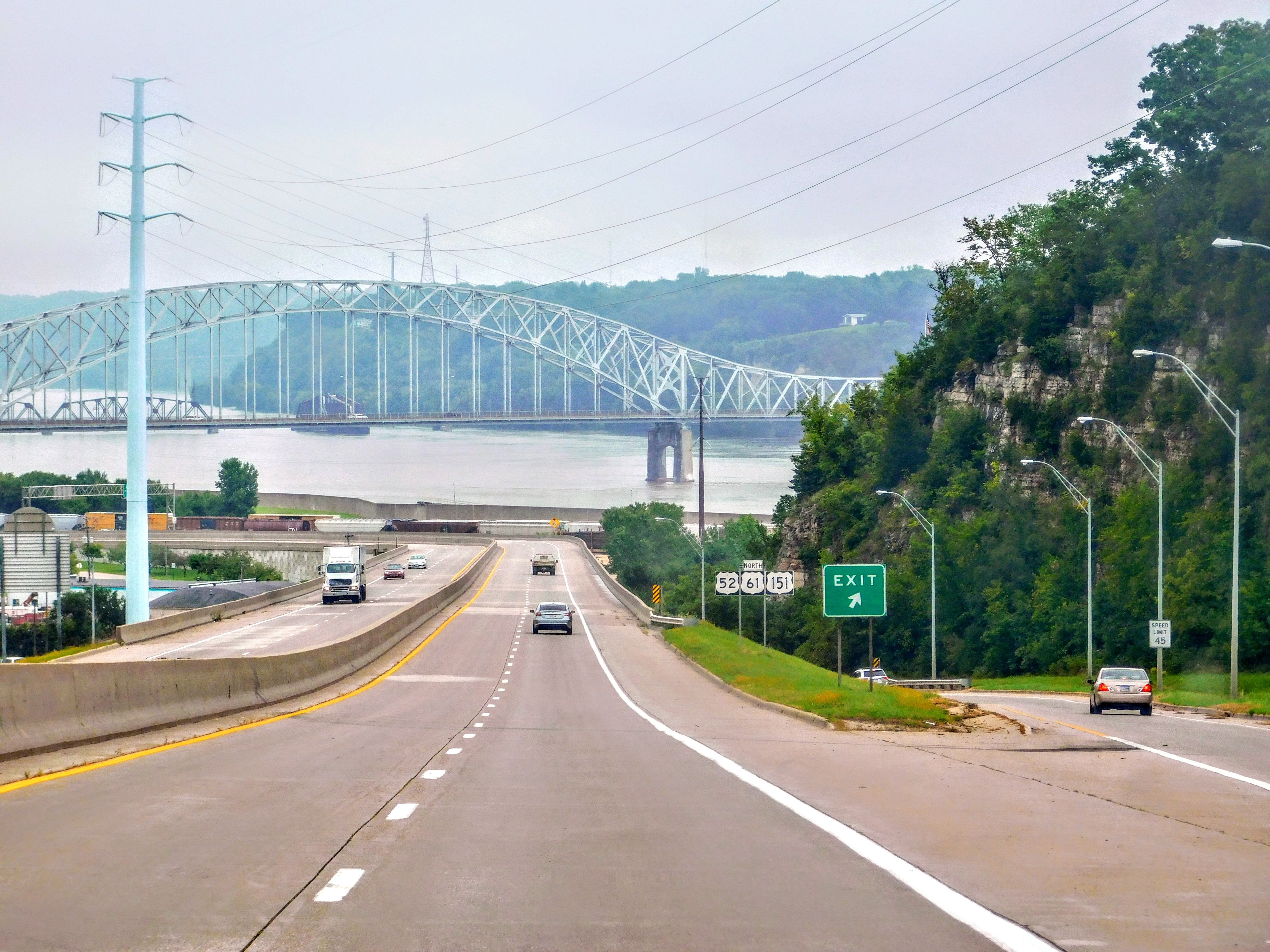 Jackson and Dubuque counties, Iowa